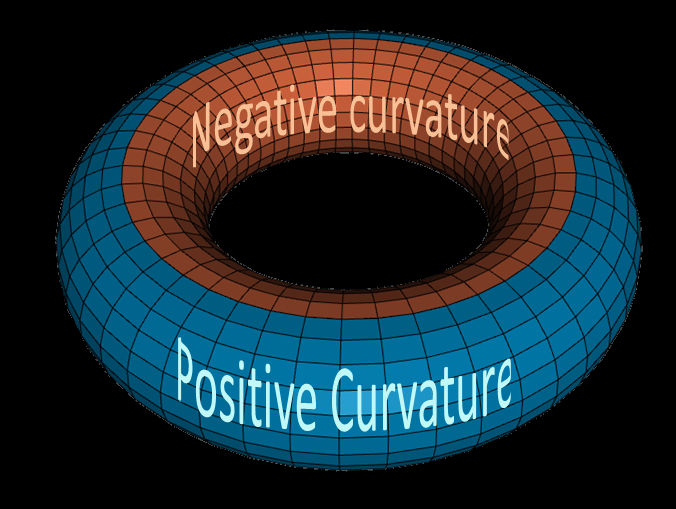 A manifold of genus one had equal amounts of positive and negative curvature.